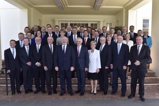 Governor-General Peter Cosgrove with newly appointed Ministers and Parliamentary Secretaries to the Turnbull Ministry, following the swearing in of Malcolm Turnbull as Prime Minister of Australia. The Governor-General and Lady Cosgrove attended a ceremony at which the Governor-General issued the Oaths and Affirmations of Executive Councillor and Office to the newly appointed Ministers and Parliamentary Secretaries.